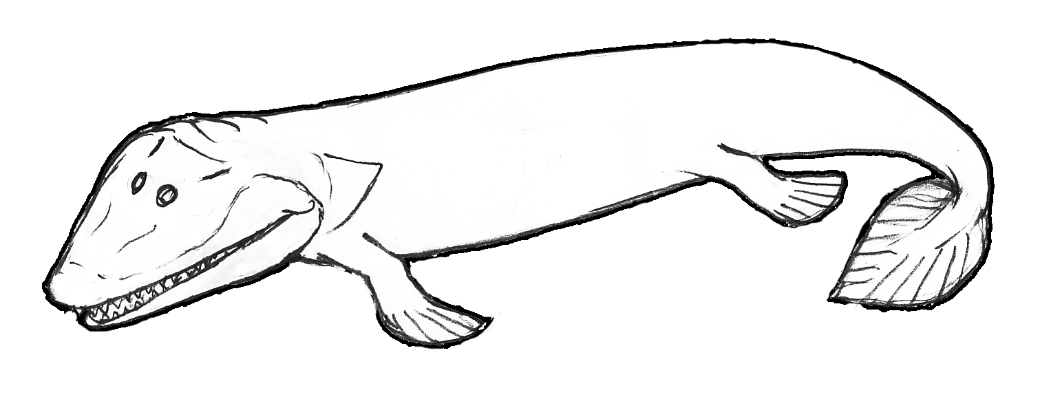 drawing of Tiktaalik by dave souza Sources - illustrations and text used for reference (note links in articles to some enlarged illustrations): [1], [2], [3], [4], [5], [6] Updated ion basis of article from Nature dated 6 April 2006. Also special thanks to Bud Neill's world renowned naturalist Mr. Craw K. Dile, who helps Lobey Dosser and Hannibal McCannibal with their quest. Licenced under cc-by-sa-2.5. Any re-use to attribute the work to dave souza and show the link